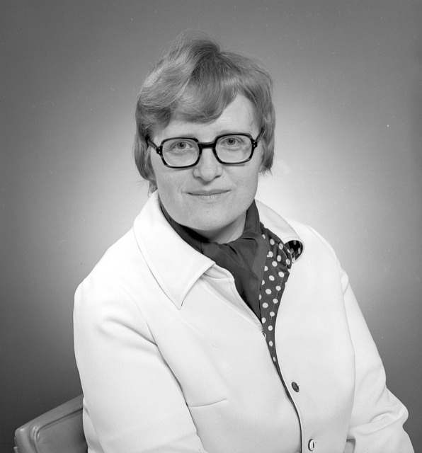 American lawyer Carin A. Clauss, first female solicitor in United States Department of Labor, for the term 1977-1981.